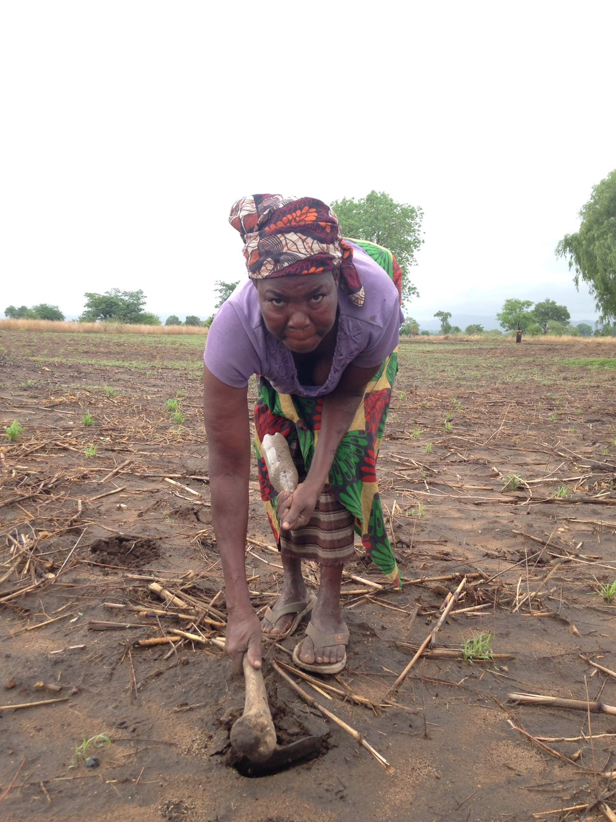 The picture is a woman named Belita Mapinga who was pictured planting millet in her field at Tengani on Nsanje District . Malawi. The woman is a widow who is takimg care of five children and three grandchildren. This photo was taken by myself as a remembrance to the woman after a good interview . on this day i was escorting Some french Journalist working with France 24 Tv . There were in Malawi for a field visit where they were filming stories about women and culture in Nsanje.